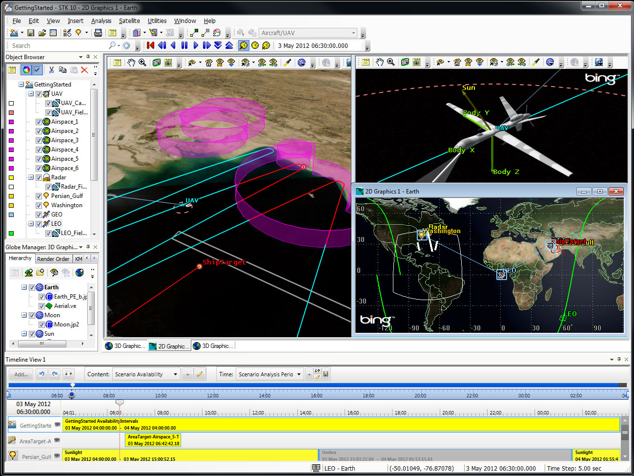 This is a Systems Tool Kit version 10 GUI screenshot from company's website